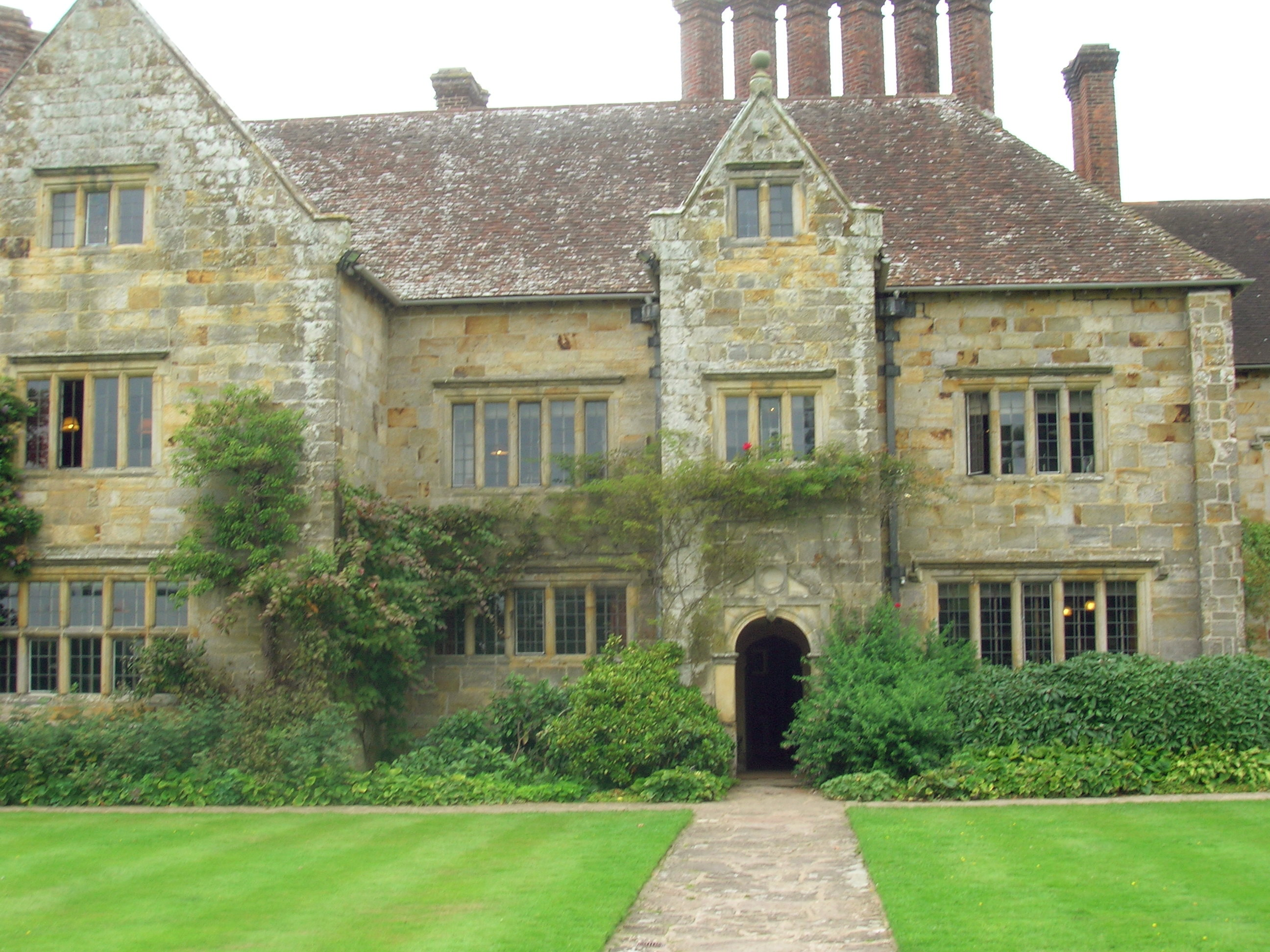 Bateman's, Rudyard Kipling's house in East Sussex